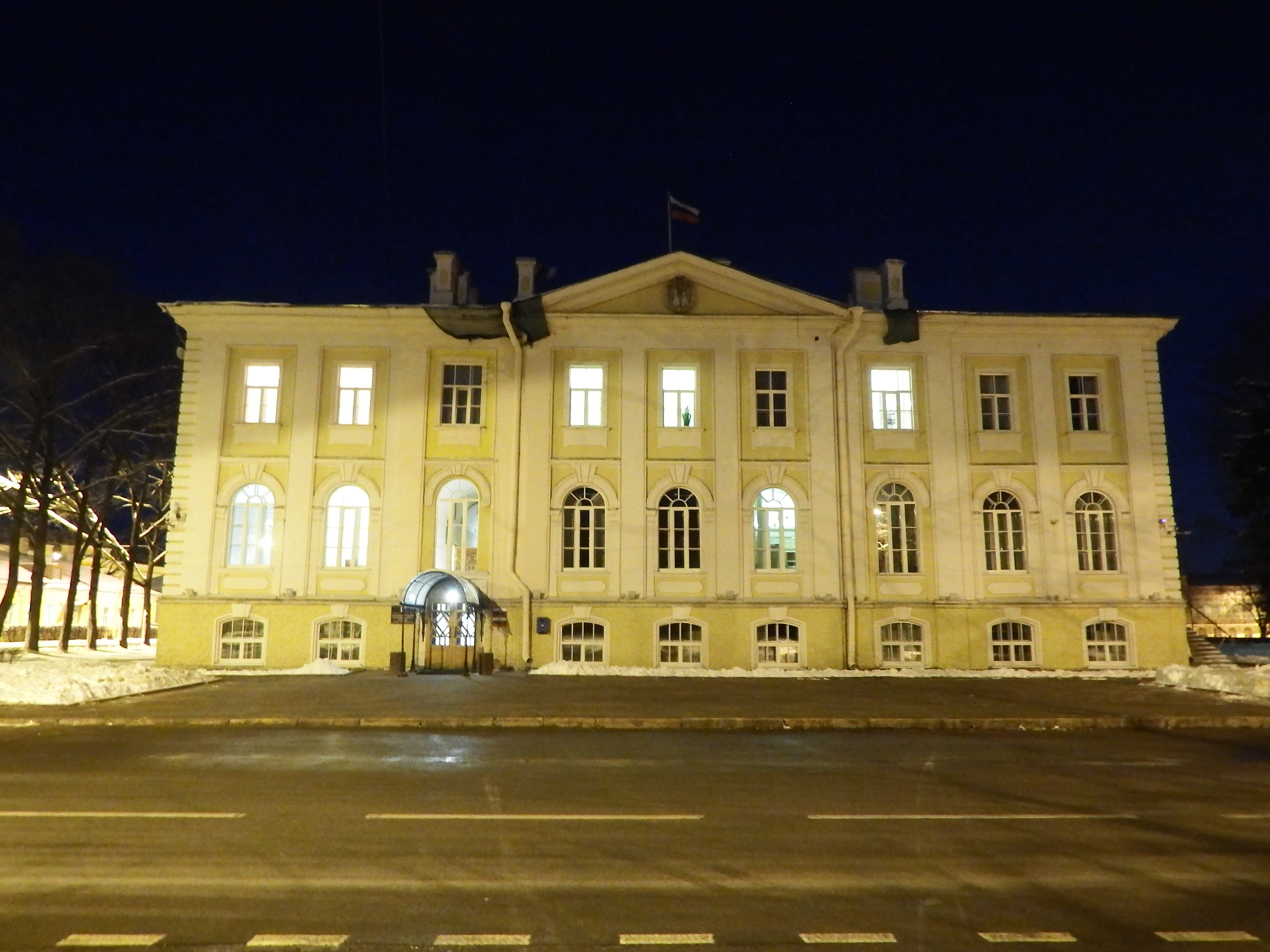 The building of Petrodvorets district administration, Peterhof, St.Petersburg